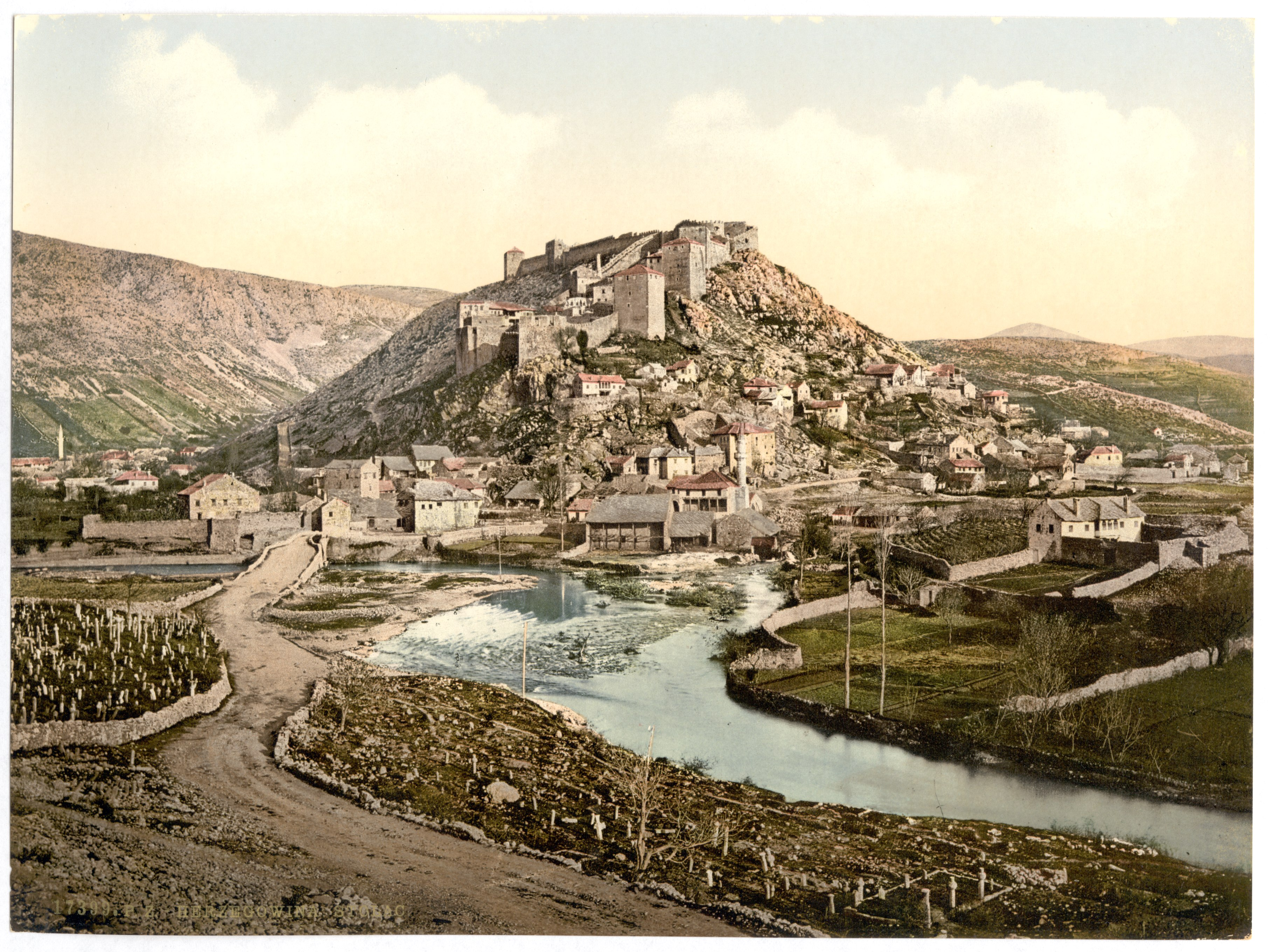 Print no. "17399".; Forms part of: Views of the Austro-Hungarian Empire in the Photochrom print collection.; On print: Herzegowina. Stglac[?].; Title from the Detroit Publishing Co., Catalogue J-foreign section, Detroit, Mich. : Detroit Publishing Company, 1905.